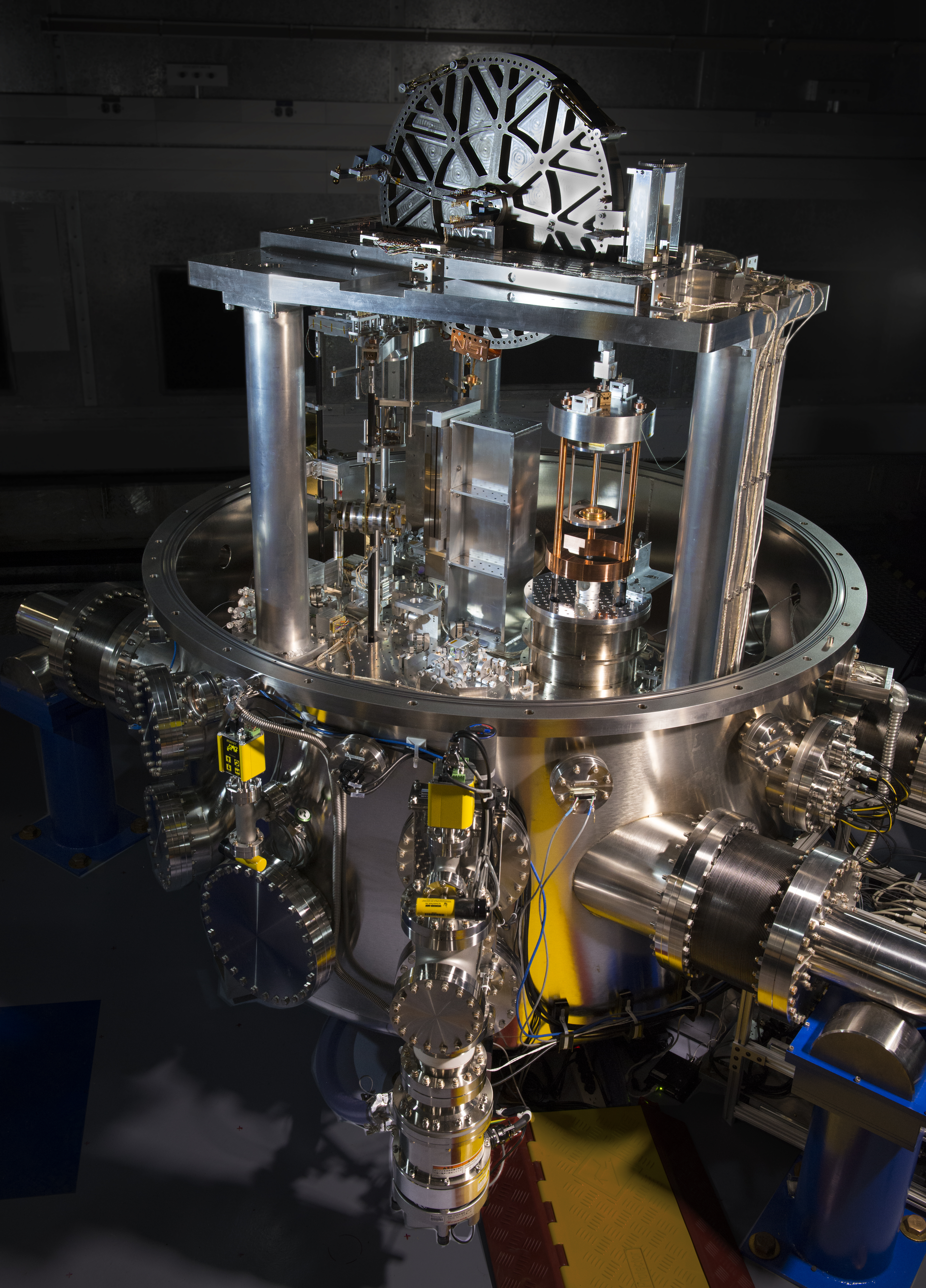 The NIST-4 Kibble balance, which began full operation in early 2015 at the National Institute of Standards and Technology (NIST) in Gaithersburg, Maryland, United States, measured Planck's constant to within 13 parts per billion in 2017, which was accurate enough to assist with the redefinition of the kilogram planned for 2019.